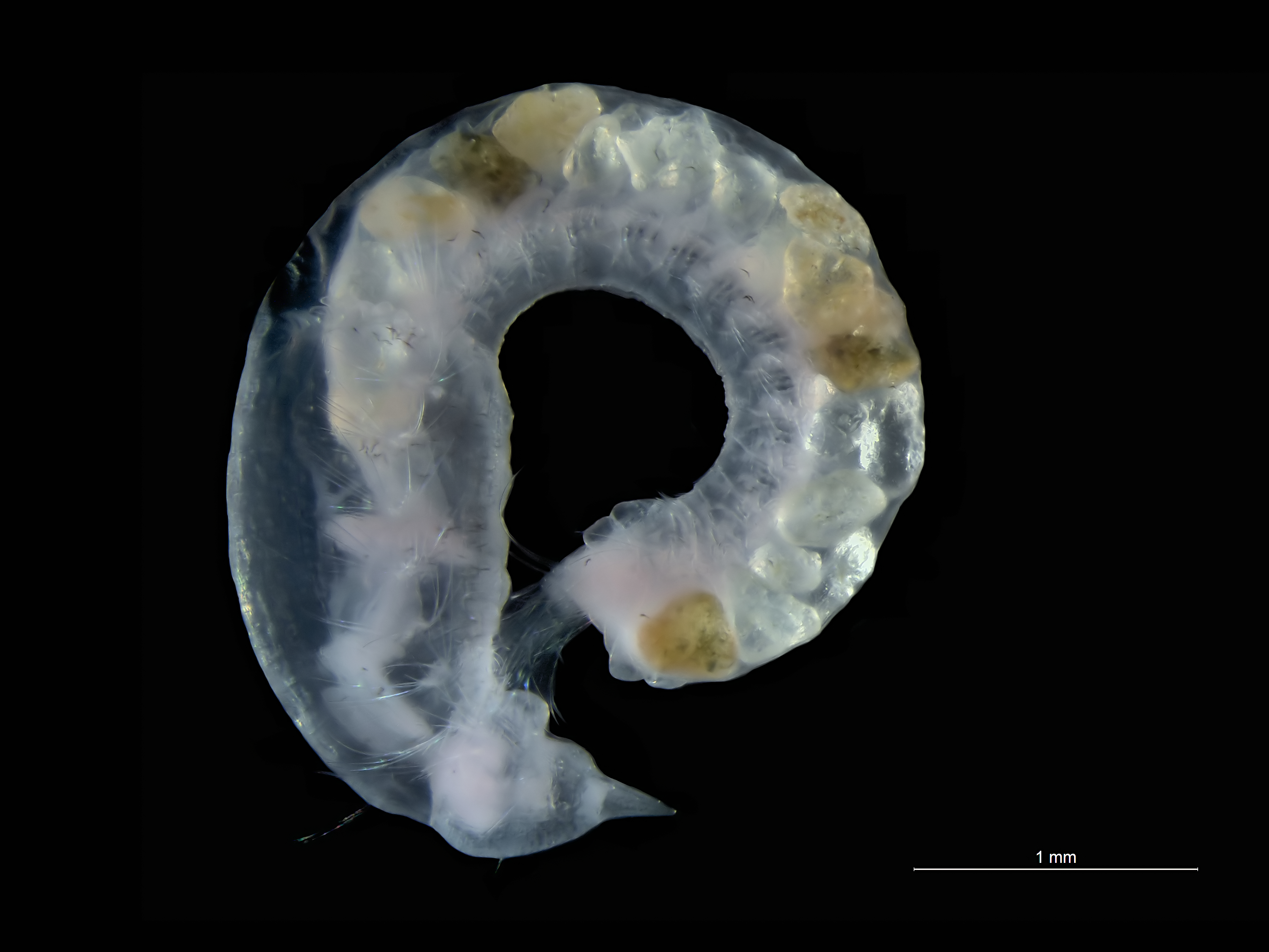 Opheliid polychaete, collected in 2011 at 51°35′38.1″N 2°46′0.16″E / 51.593917°N 2.7667111°E on the Bligh Bank on the Belgian part of the North Sea. Length = 6 mm Focus stacking of 13 pictures. This image was created with Zerene Stacker.